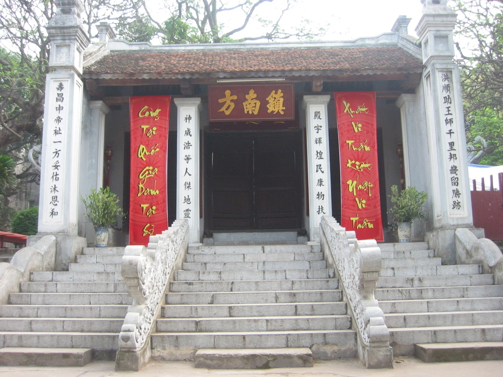 Gate of Kim Lien shrine, Hanoi, Vietnam